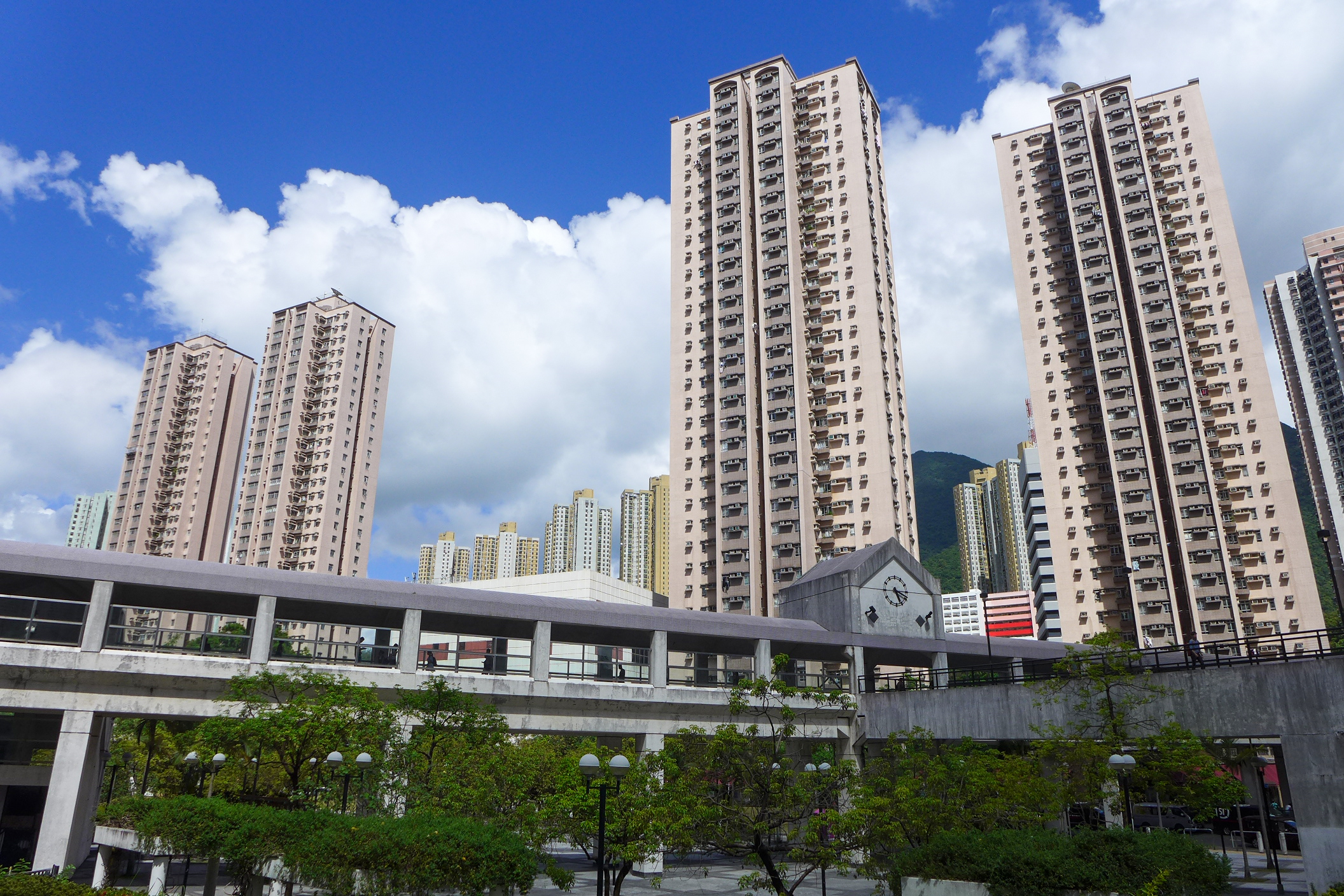 Sunshine City Phase 1 & 2